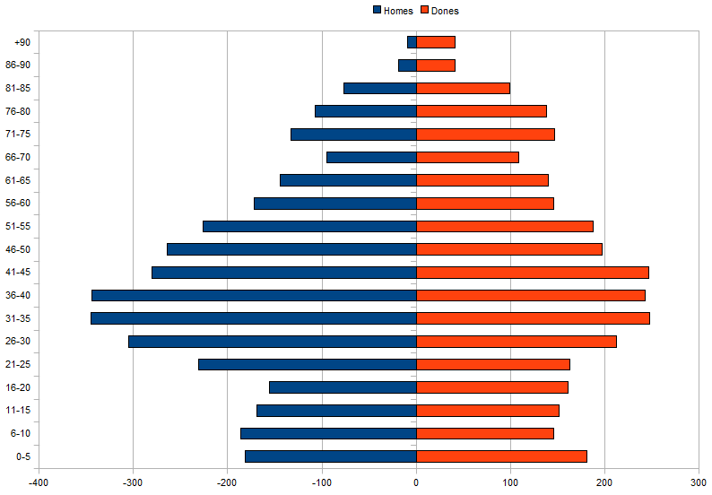 2007 Arbúcies population pyramid